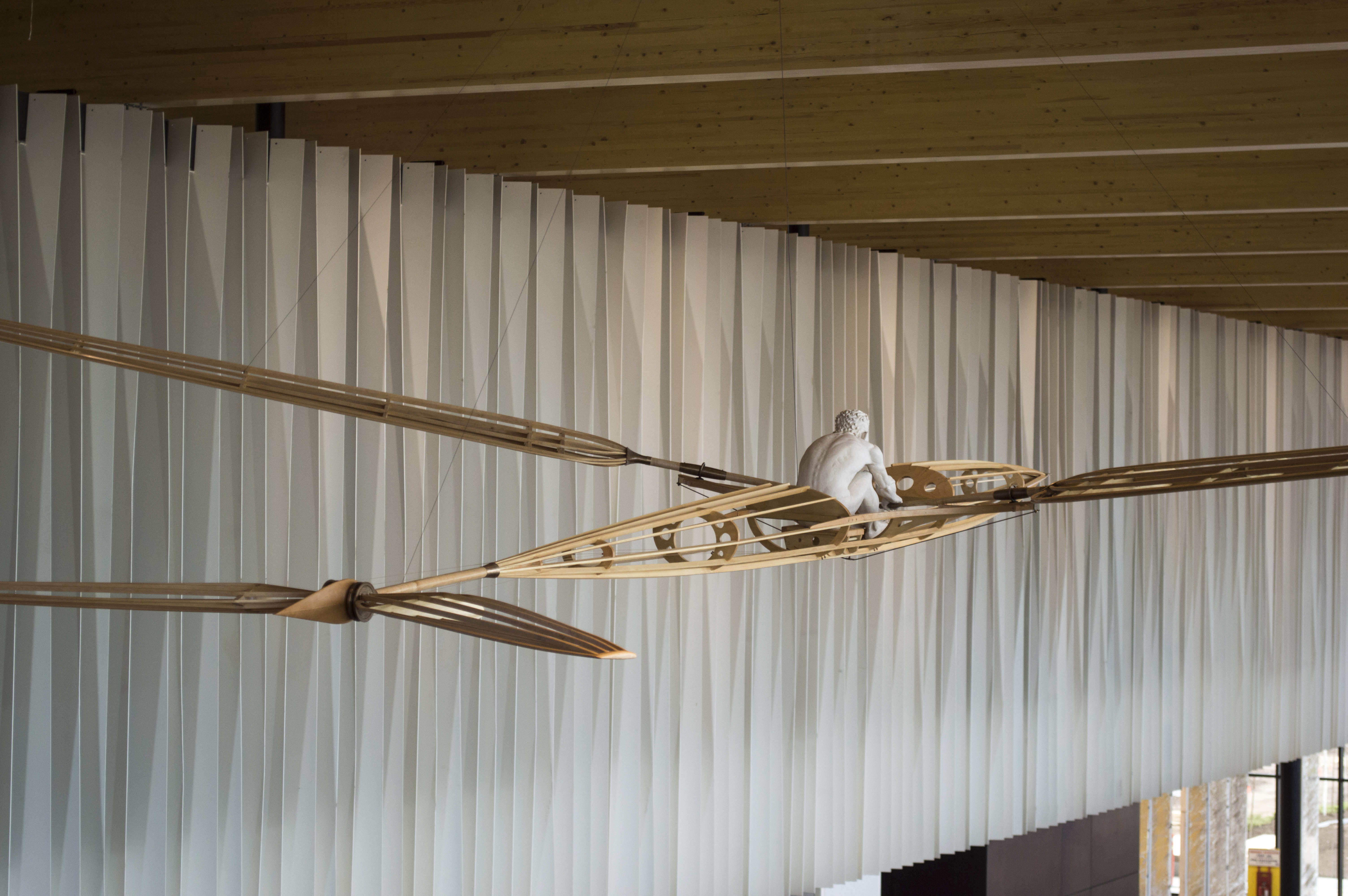 "Daedalist" - a suspended sculpture created by David Robinson of Vancouver, one of several art pieces commissioned to the Fort McMurray International Airport.